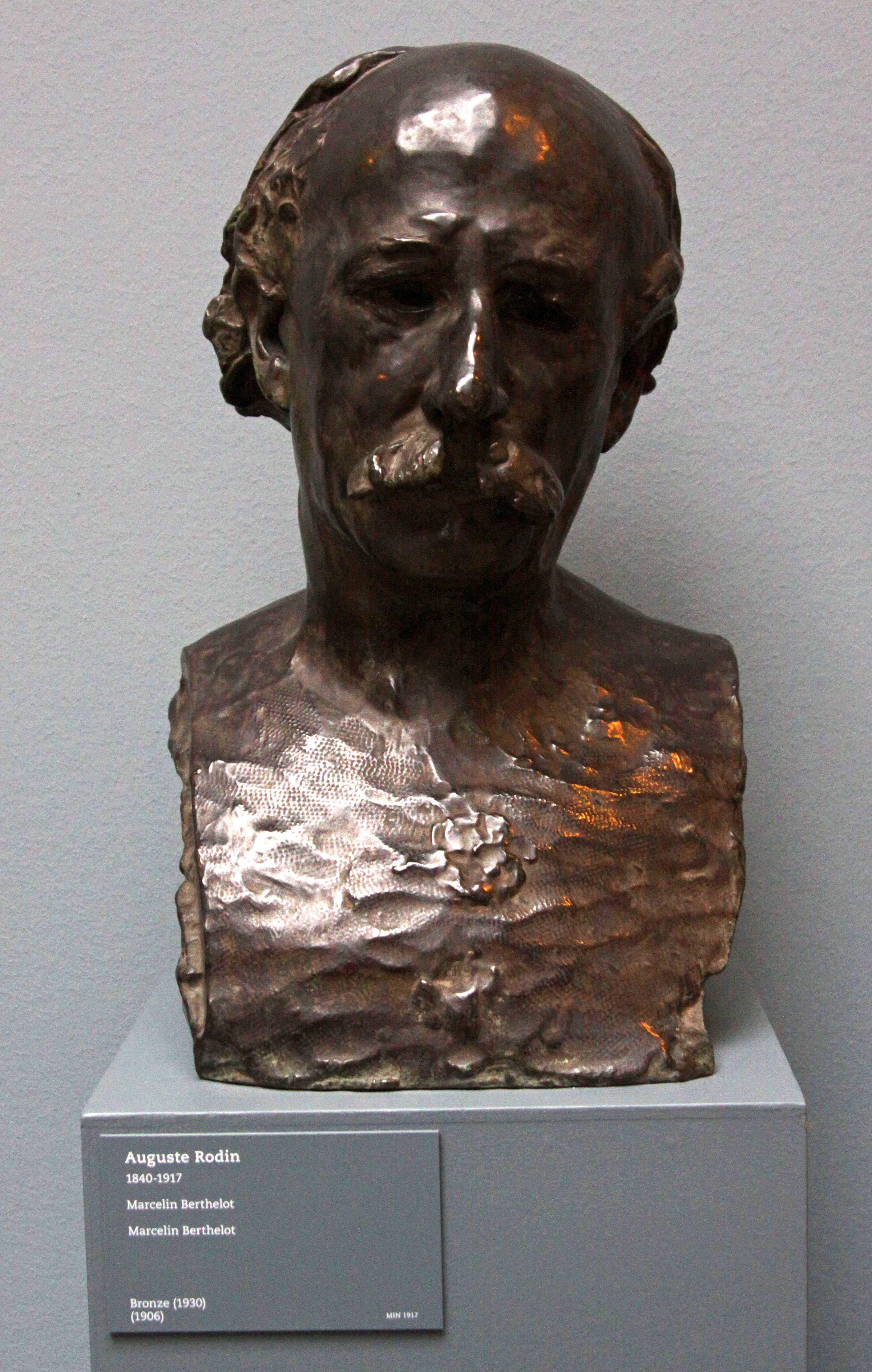 Auguste Rodin (Fench, 1840-1917): Bust of Marcellin Berthelot, 1930 bronze cast (after 1906 original), Ny Carlsberg Glyptotek, Copenhagen, Danmark.